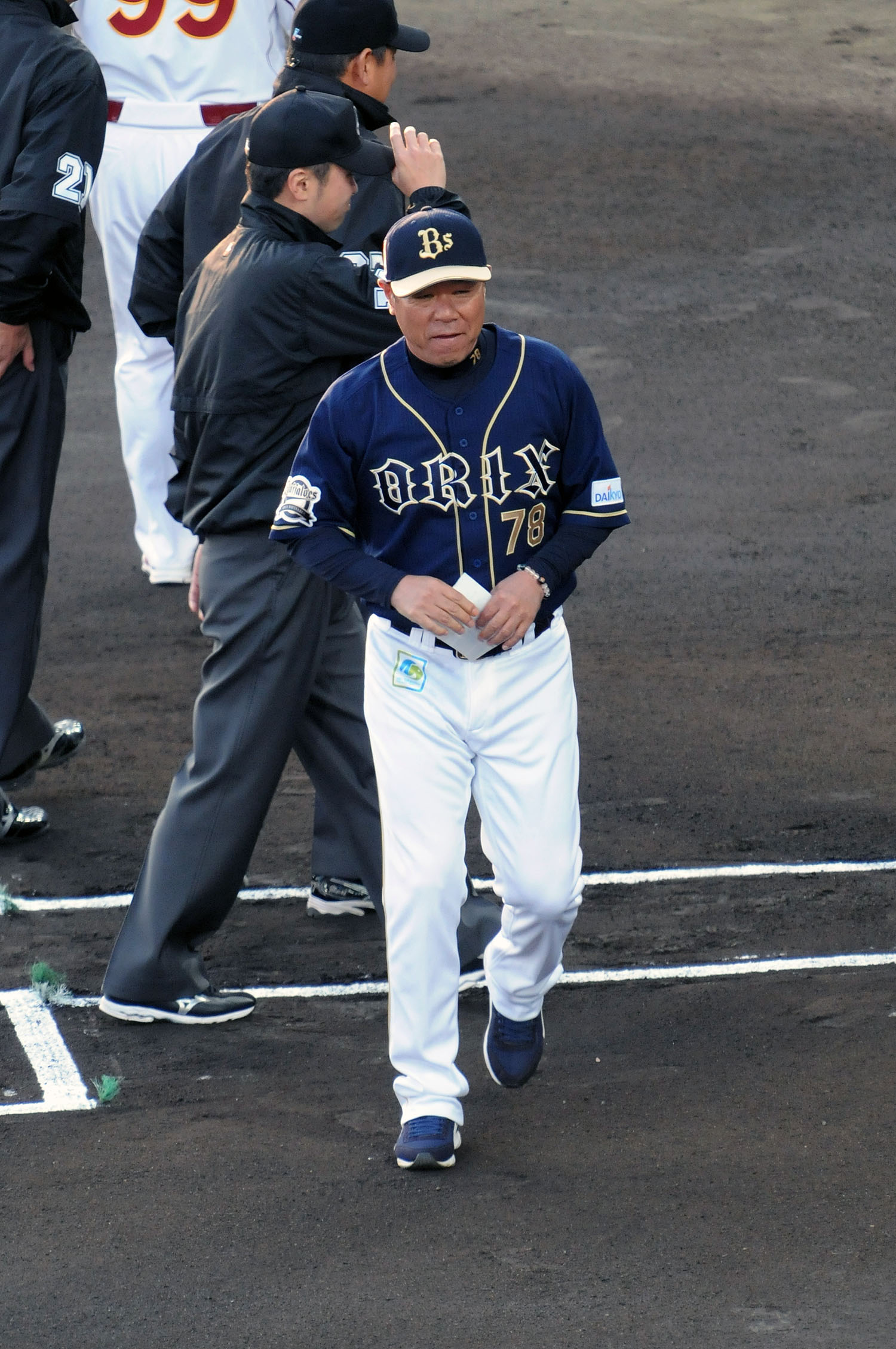 Junichi Fukura, manager of the Orix Buffaloes, at Akita Prefectural Baseball Stadium